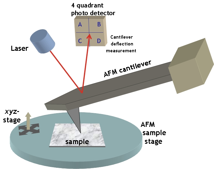 Typical atomic force microscope (AFM) setup: The deflection of a microfabricated cantilever with a sharp tip is measured by reflecting a laser beam off the backside of the cantilever while it is scanning over the surface of the sample.